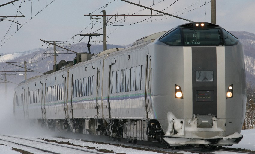 A JR Hokkaido 789-1000 EMU